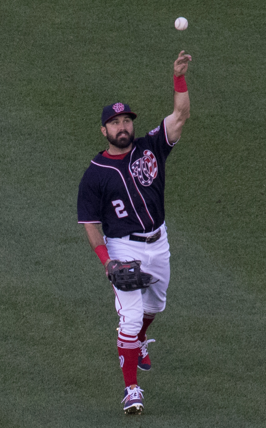 Adam "Spanky" Eaton at Nationals Park with the Washington Nationals in 2017